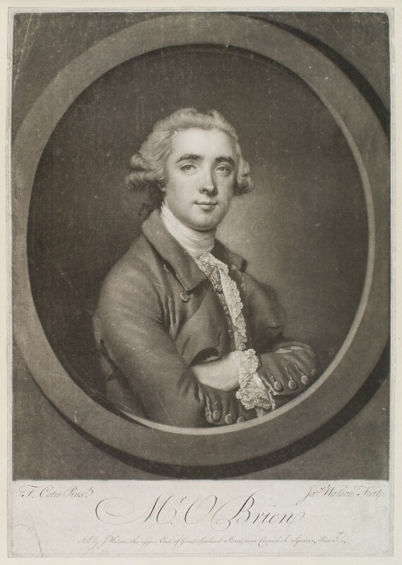 Portrait of actor William O'Brien, by and published by James Watson, after Francis Cotes mezzotint, published circa 1765 (1763)